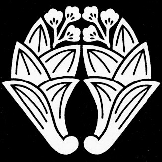 Crest of Inagaki older branch